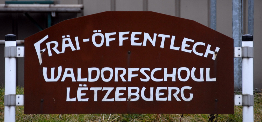 Panel in front of the Waldorf school in Luxembourg City, Limpertsberg.